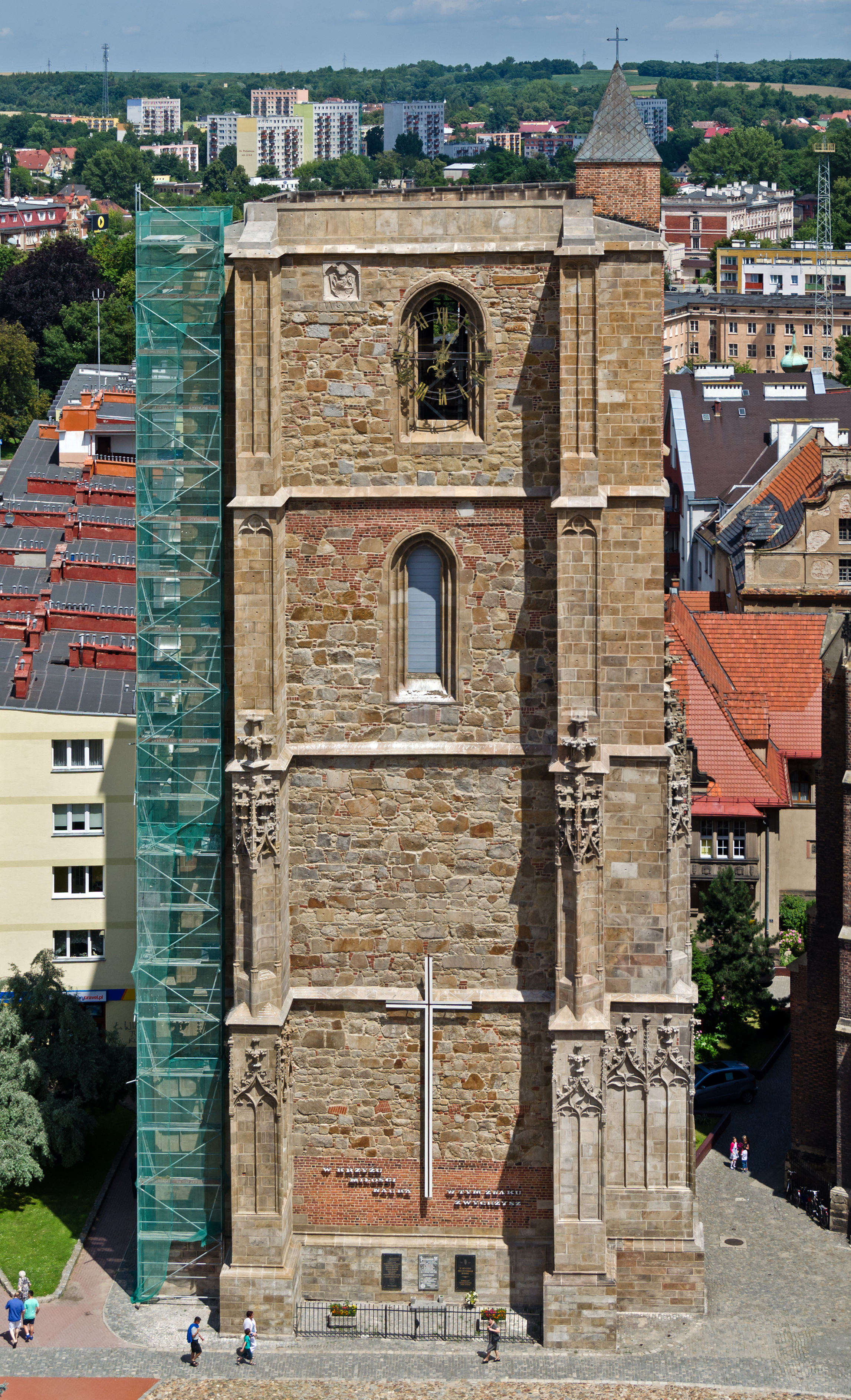 Bell tower at the church of saints James and Agnes in Nysa